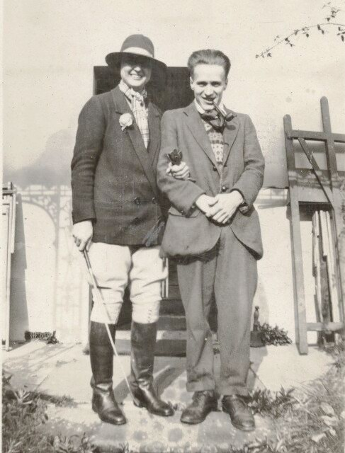 Henrietta Bingham; Stephen Tomlin possibly by Dora Carrington vintage snapshot print, mid 1920s 3 1/8 in. x 2 in. (78 mm x 52 mm) image size Purchased, 1979 NPG Ax131210